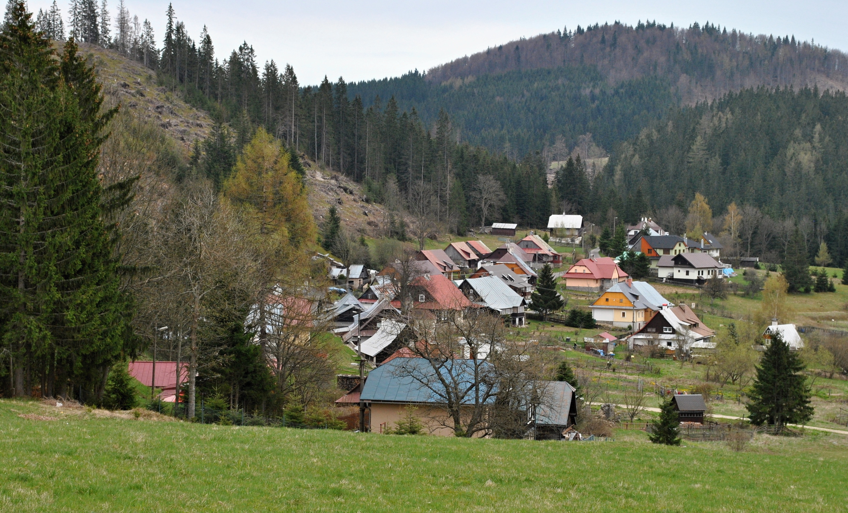 Donovaly, district of Banská Bystrica - settlement of Bully